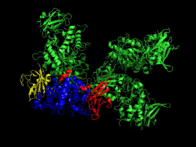 Structure of glycogen branching enzyme found in Escherichia coli (E. coli). Three of the four asymmetric units are shown in green while the remaining unit is broken down into its three main domains. Specifically, red indicates the amino-terminal domain, blue indicates the central (α/β) barrel domain and yellow indicates the carboxyl-terminal domain